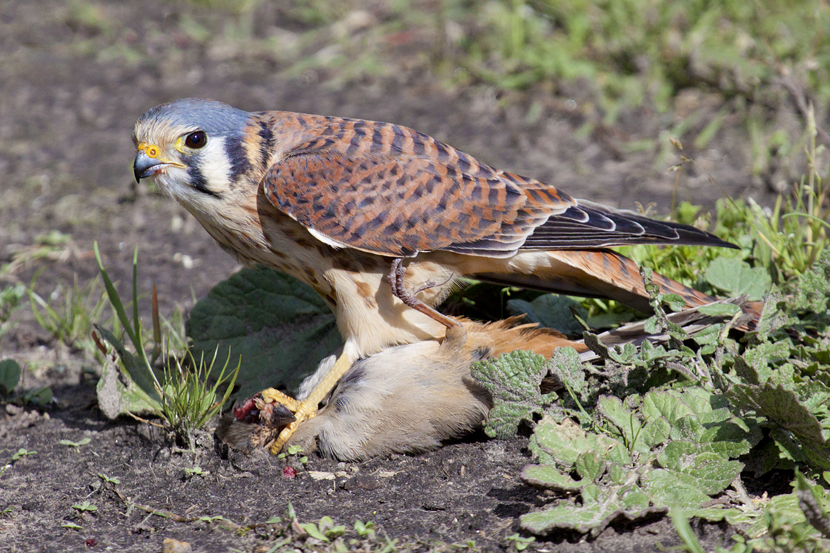 A female American Kestrel with prey in San Luis Obispo, California, USA. Its prey is a dead bird.